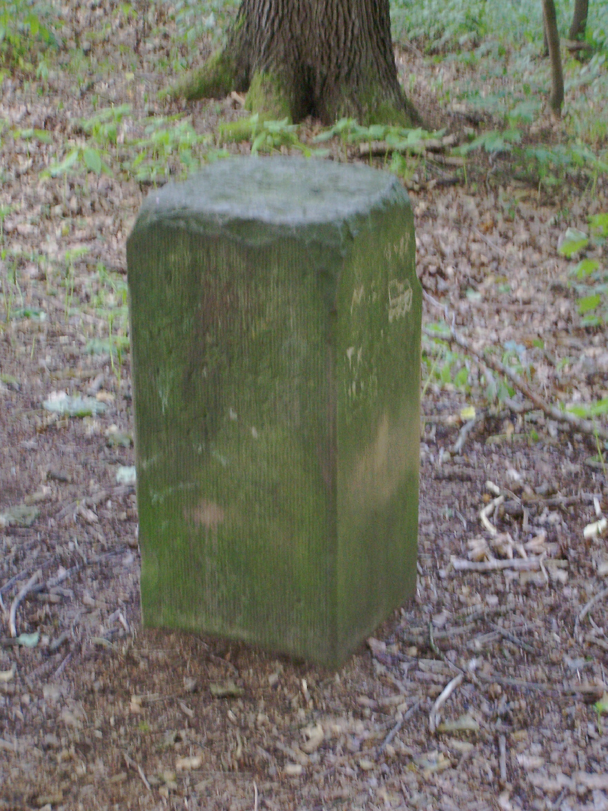 A stone used as stand or a sun dial at Metilstein